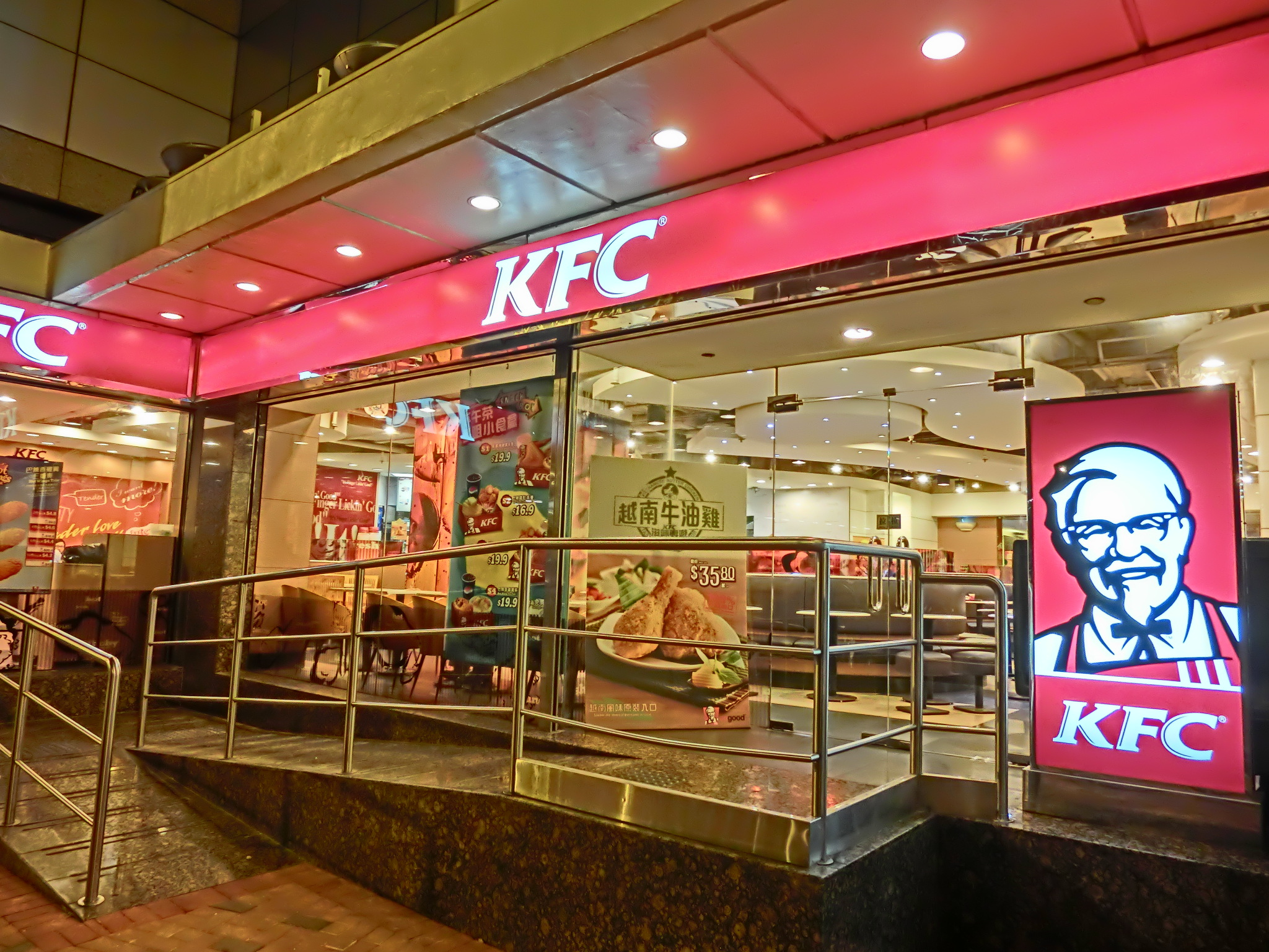 金鐘夏慤道, Harcourt Road, Admiralty, Hong Kong